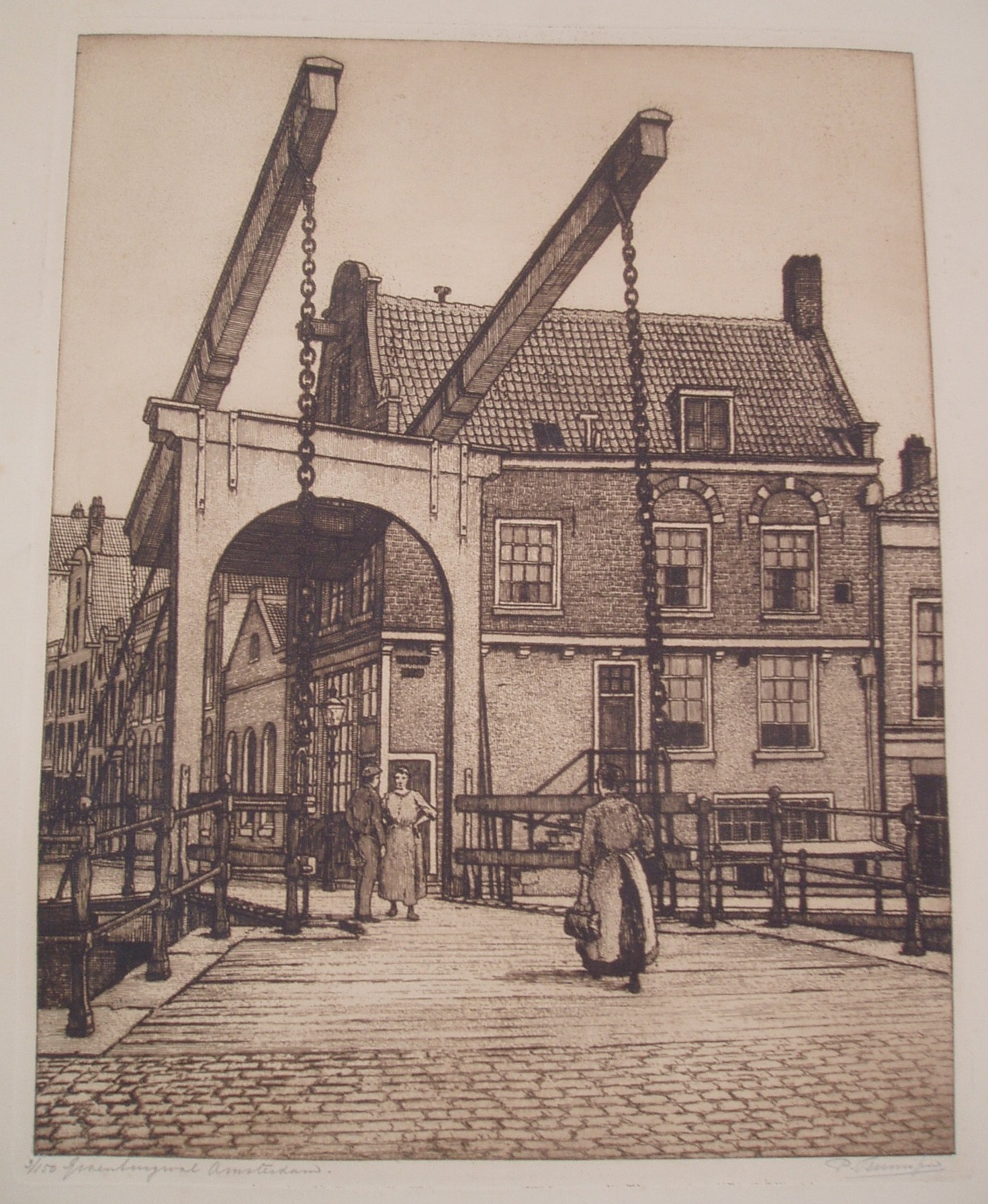 Etching by P.J. 'Piet' Teunissen of the Groenburgwal in Amsterdam